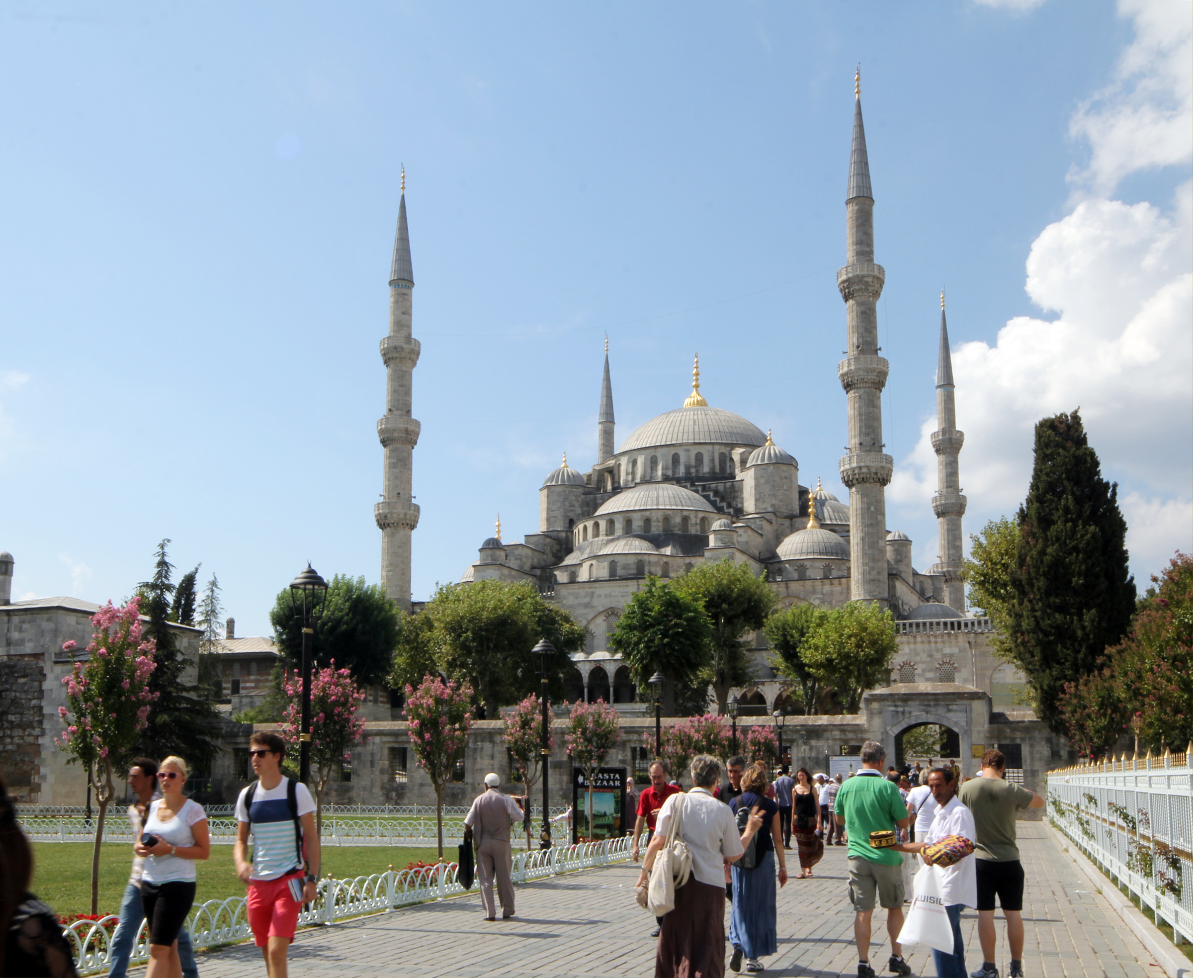 View on mosque Sultan Ahmed I Mosque in Istanbul, Turkey